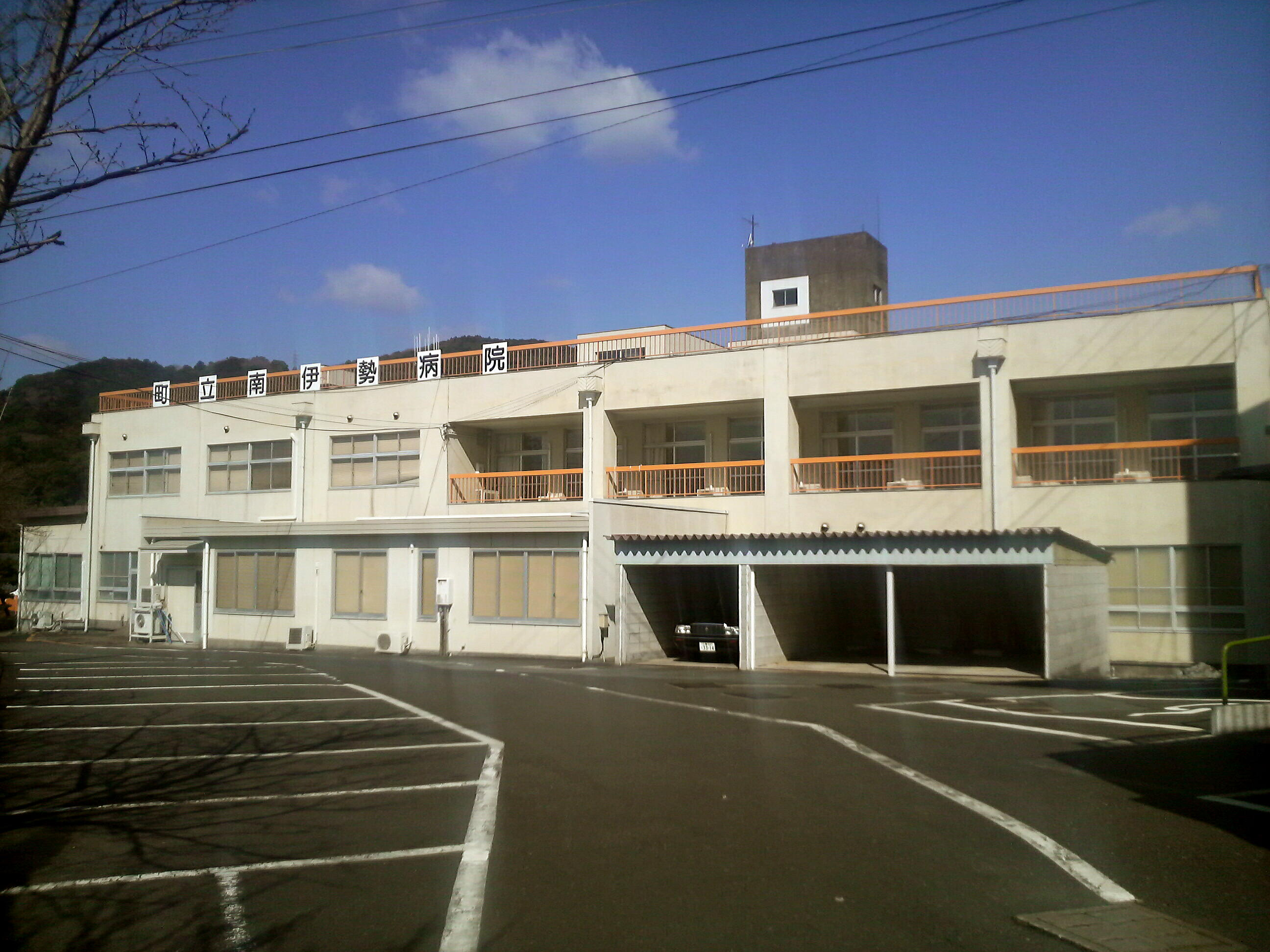 The "Minamiise Hospital" in Minamiise Town, Watarai District, Mie Prefecture, Japan.